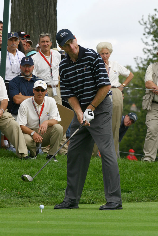 Jim Furyk practicing a day before the 2004 Ryder Cup at the Oakland Hills Country Club in Bloomfield Hills, Michigan.